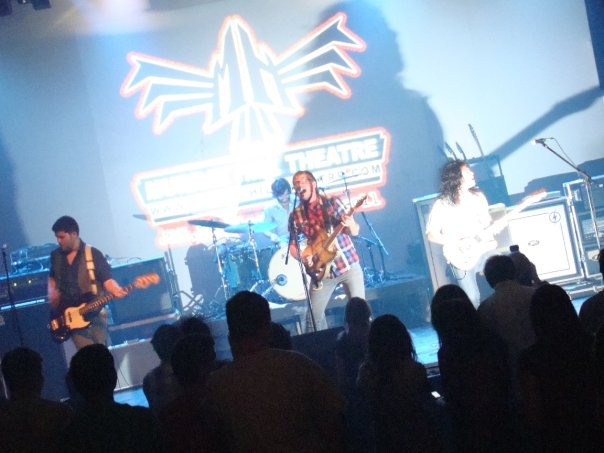 Abandon Kansas live at Murray Hill Theater October 1, 2009